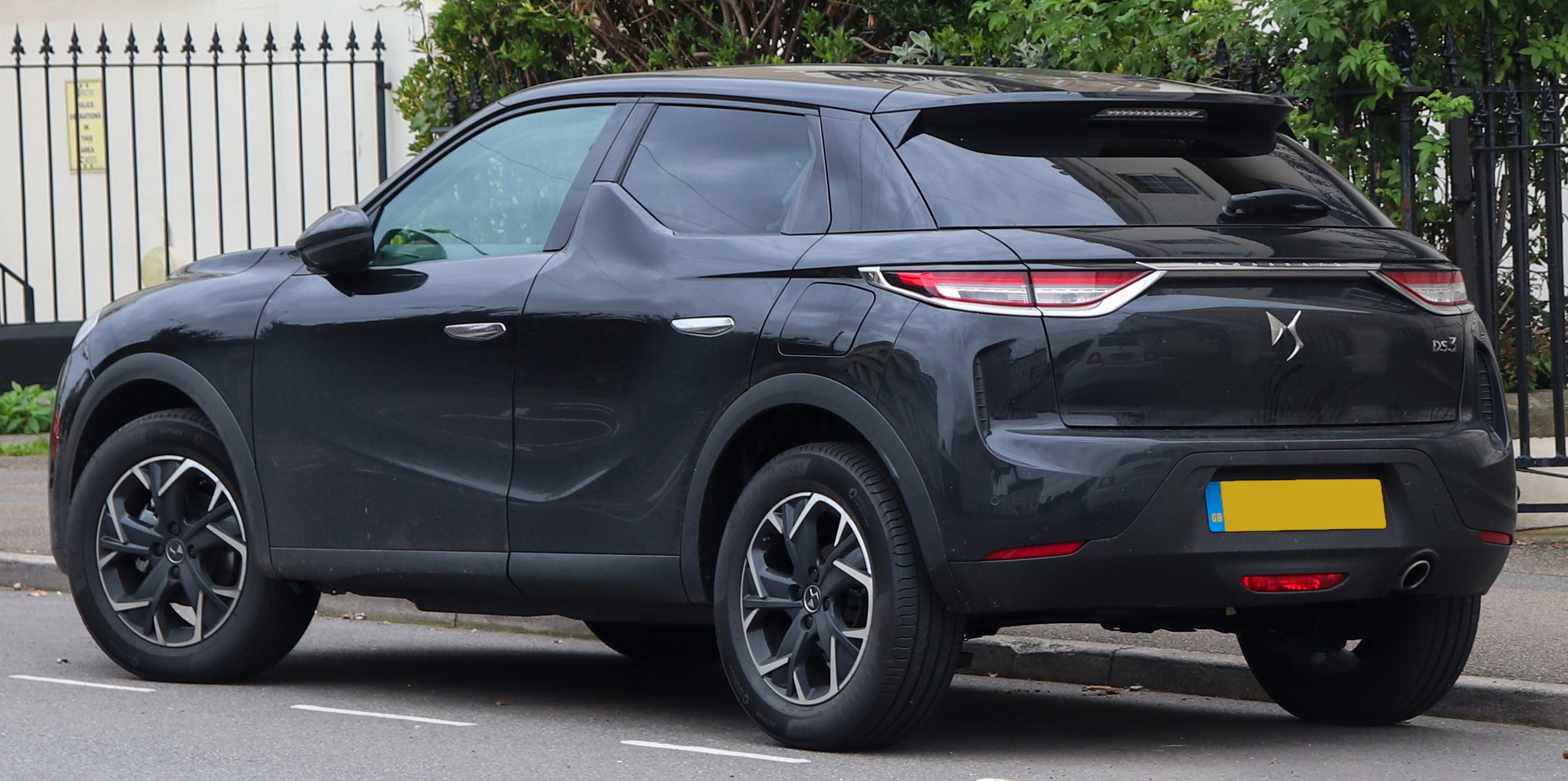 2019 DS DS3 Crossback Prestige BlueHDi 1.5 Rear Taken in Leamington Spa